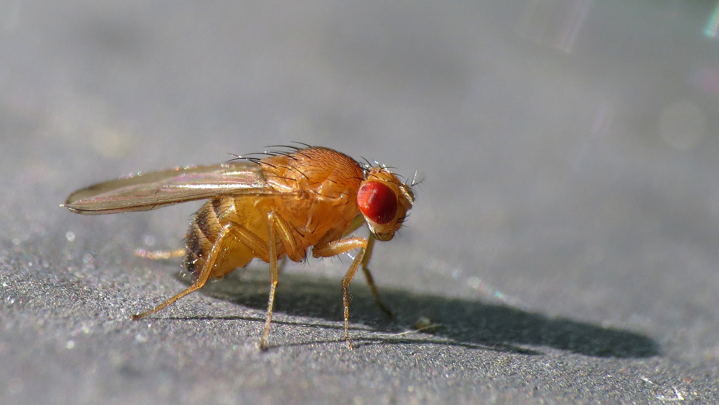 Vinegar fly, a male Drosophila immigrans, one of the many small Drosophilidae hanging around my compost in winter. Como, NSW, Australia, July 2014. Thanks to Shane McEvey for the ID.